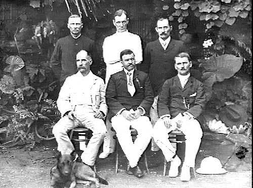 Black & white photograph of the Palmerston (NT) District Council, taken in 1909. Back row left to right: E.V.V. Brown; W.C.P. Bell; O. Witherden. Front row left to right: C.J. Kirkland; W.J. Barnes; P. Kelsey. First citizens of the Commonwealth to publicly welcome to Australia the distinguished visitor Lord Kitchener".